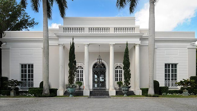 Gottfried Regency 748 Hi Mount Rd Photographed by Stephen Moss 2-12-10